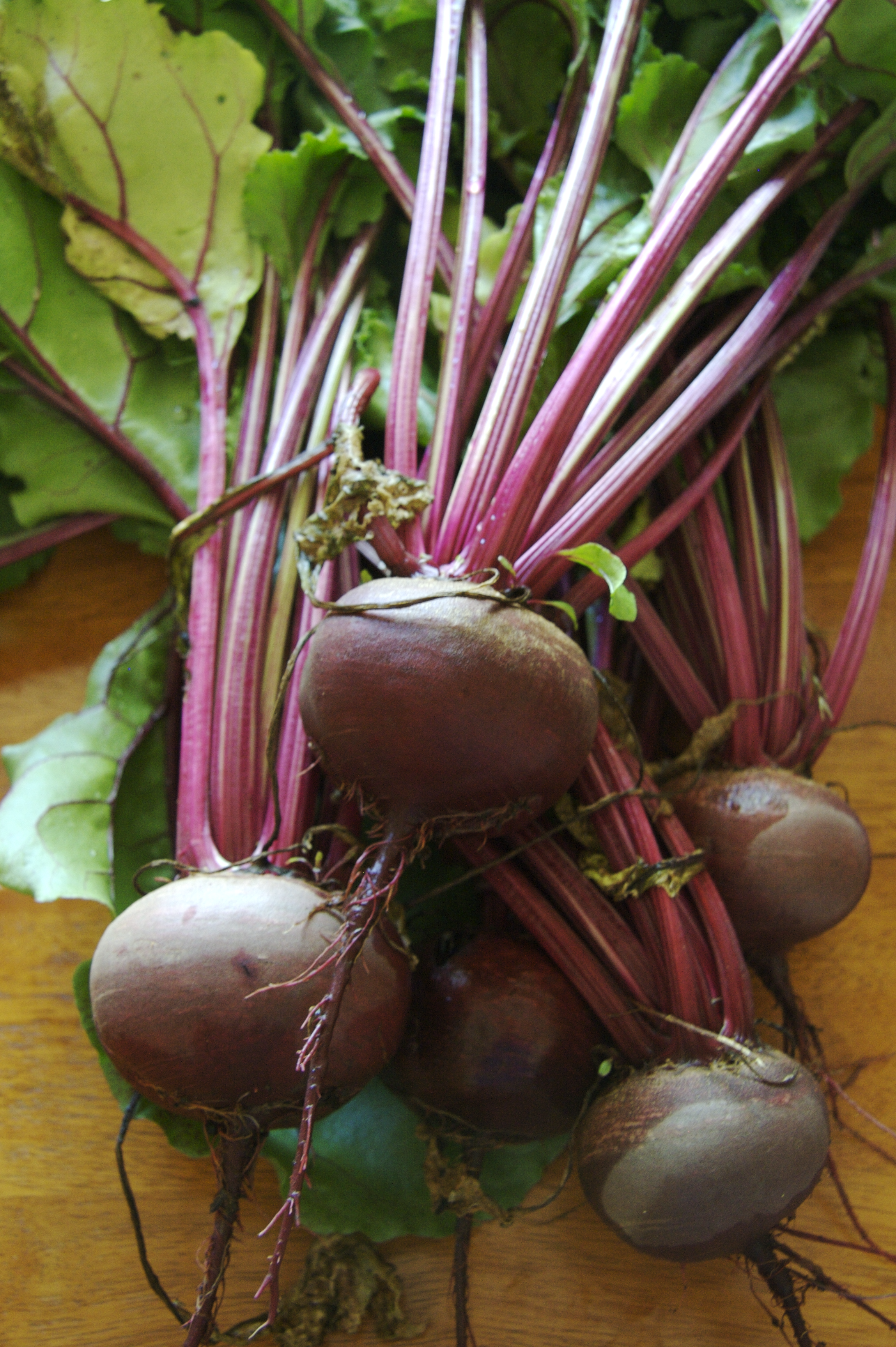 Detroit Dark Red Beets